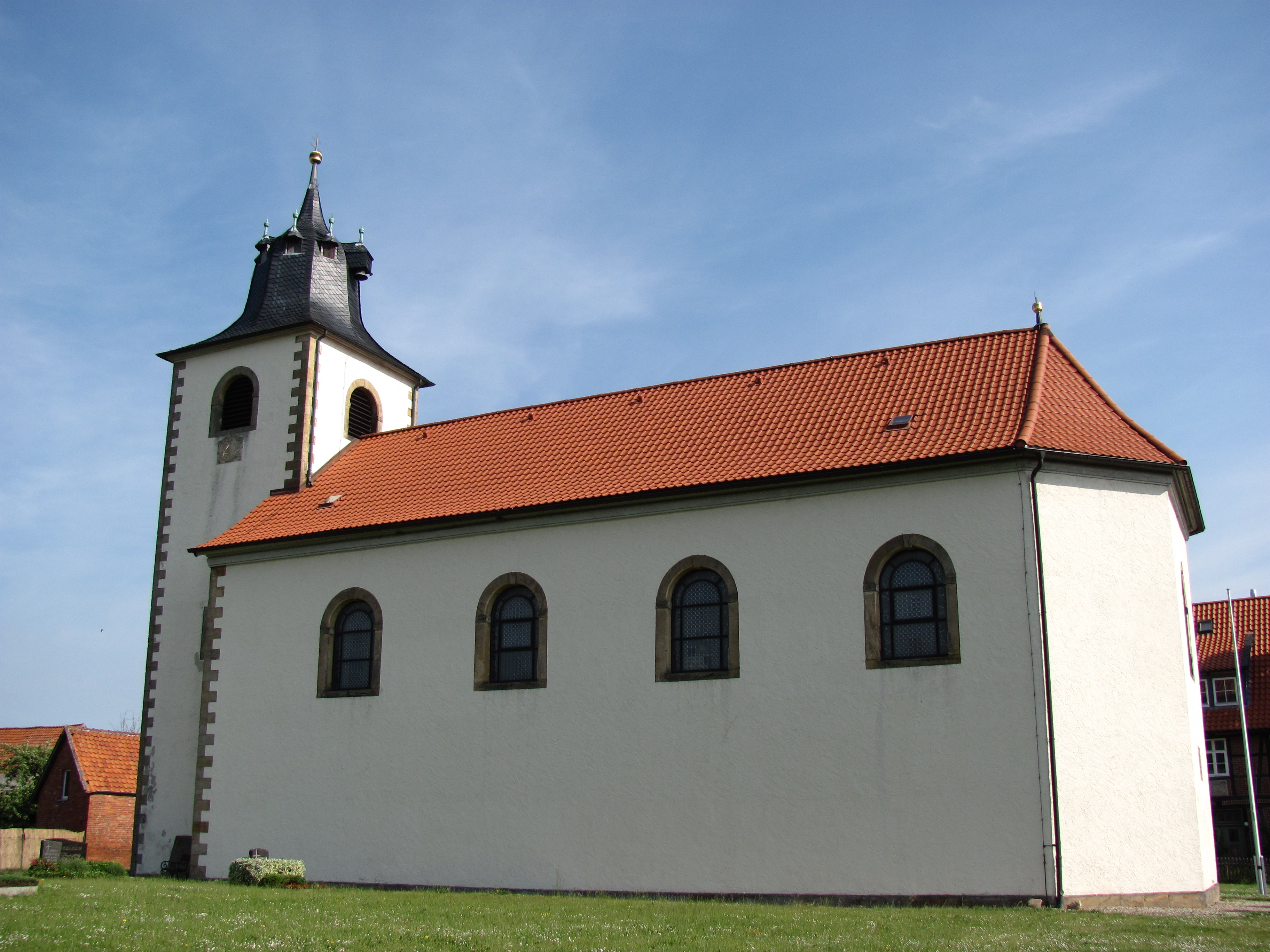 Catholic Church, Schellerten-Wöhle, Lower Saxony, Germany